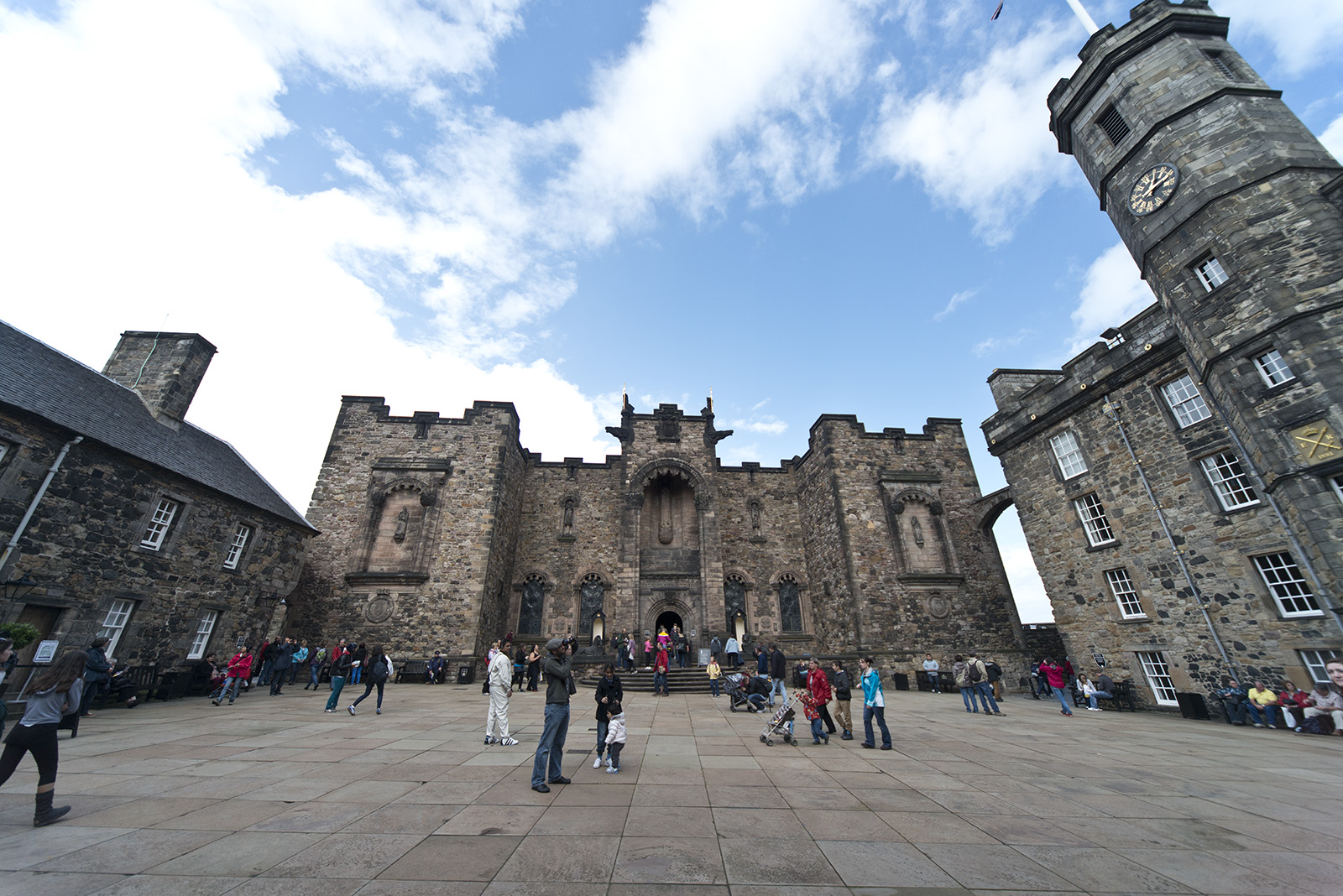 Edinbrugh Castle